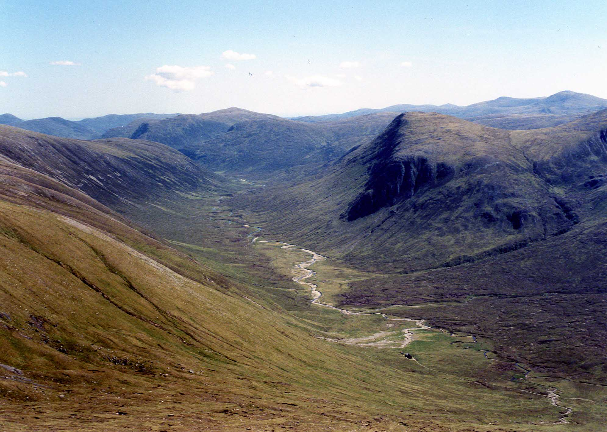 View from the summit of Sgurr nan Ceannaichean